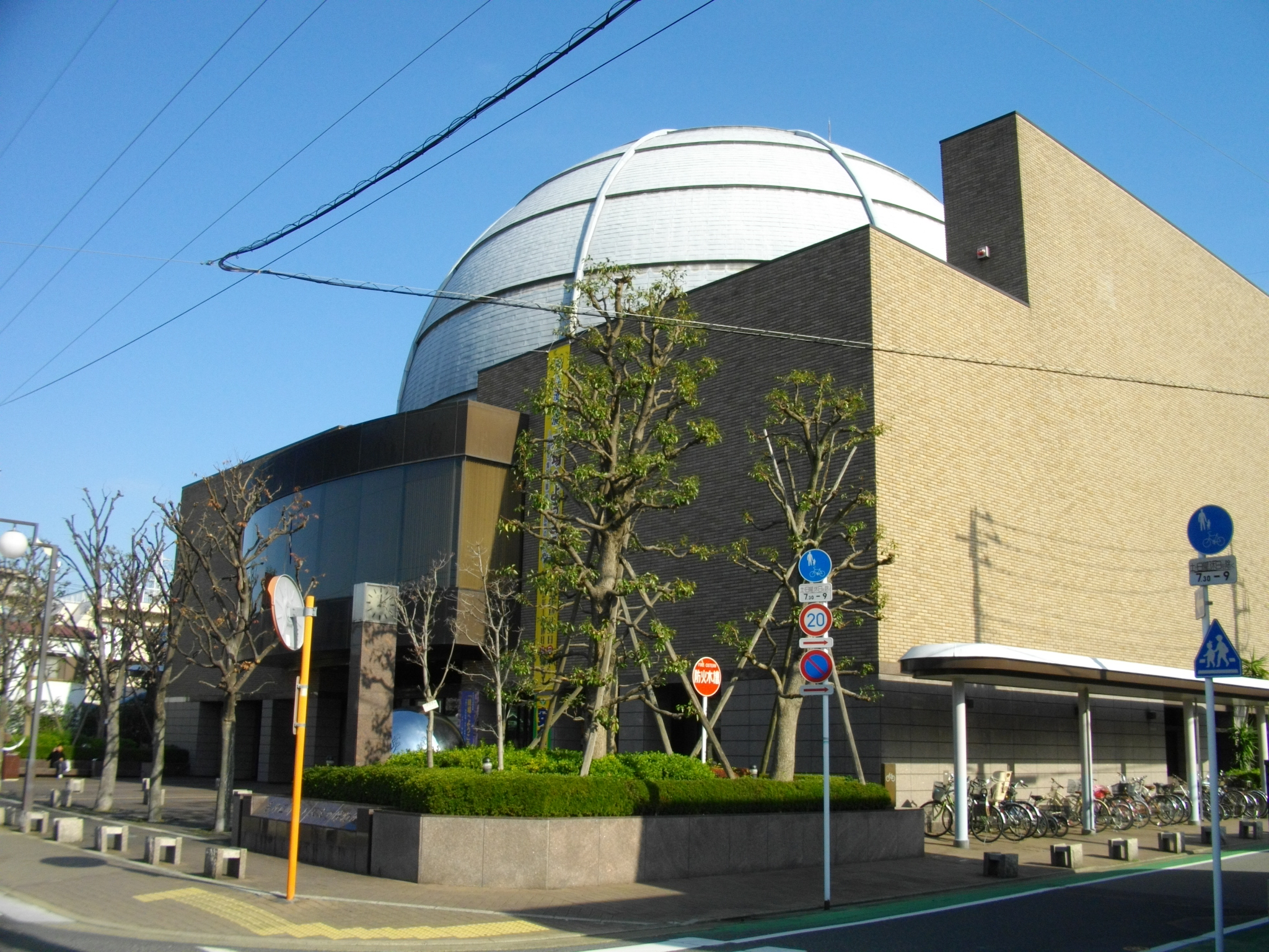 Katsushika City Museum